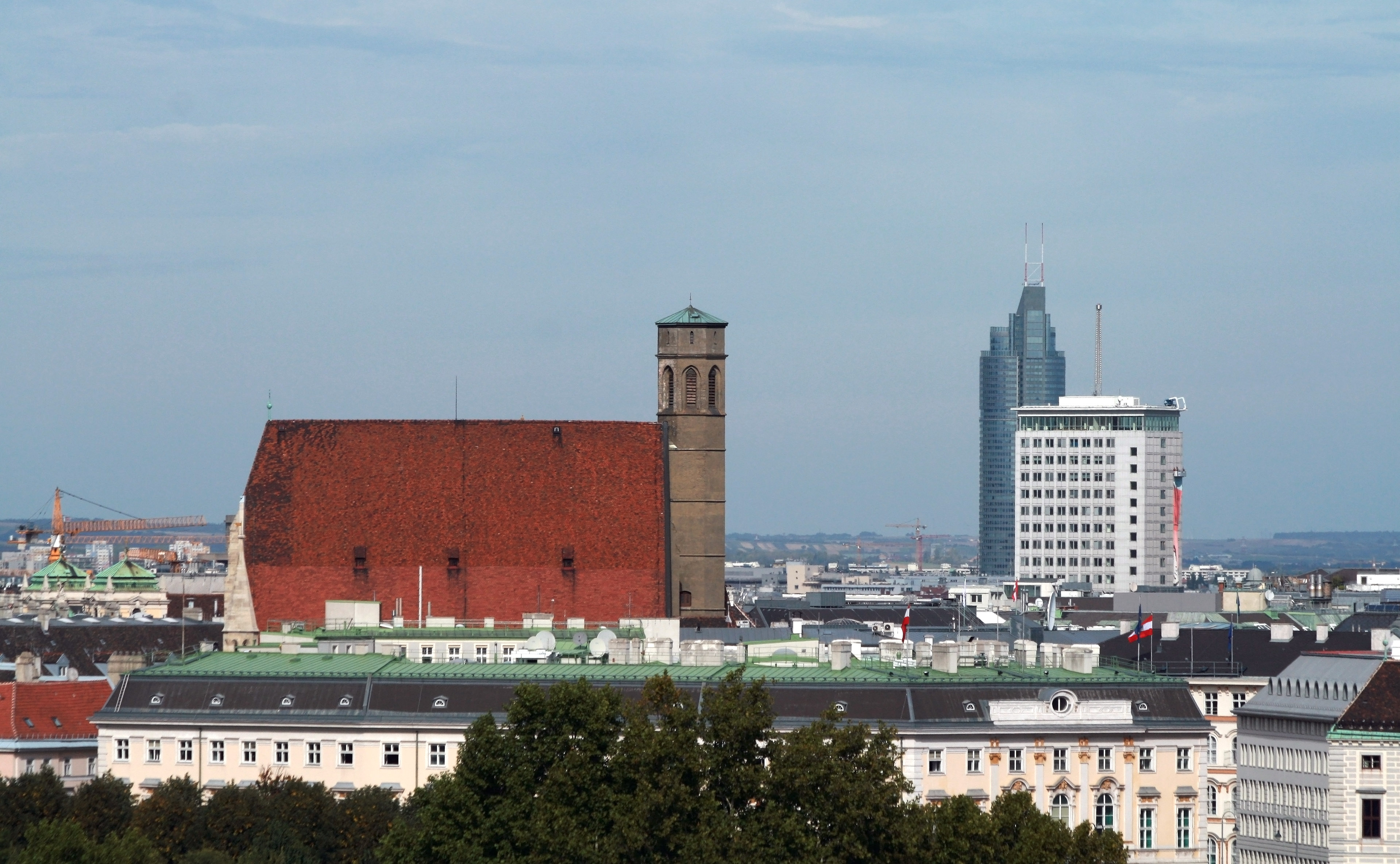 Vienna, Austria: Minoritenkirche, Ringturm, Millennium Tower, the Federal Chancellery of Austria in the foreground.